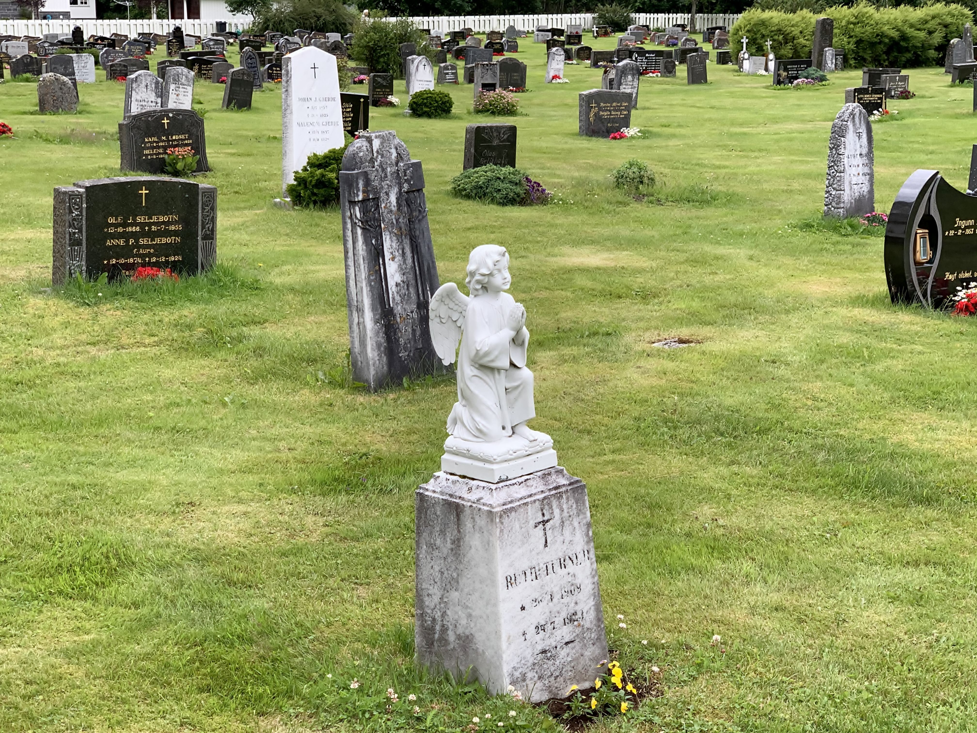 Stordal kirke graveyard